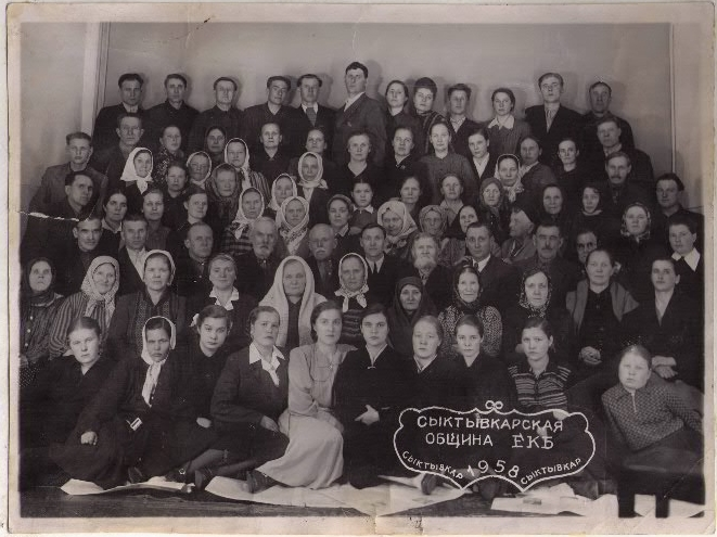 Baptist Church in Syktyvkar 1958